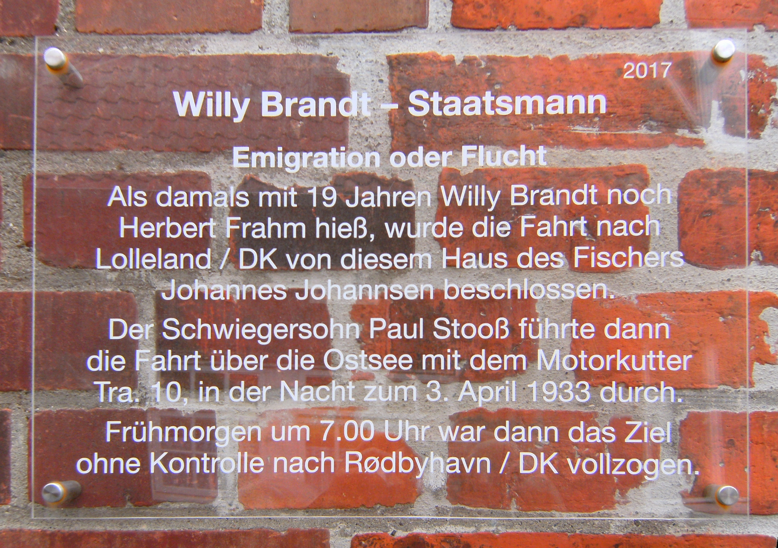 Lübeck-Travemünde, Germany, Jahrmarktstraße 4: Plaque to remember the flight of Willy Brandt from Germany to Denmark and fisherman Paul Stooß who made it possible.